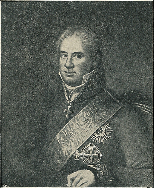 Frederik Julius Kaas. Efter maleri på Herlufsholm.